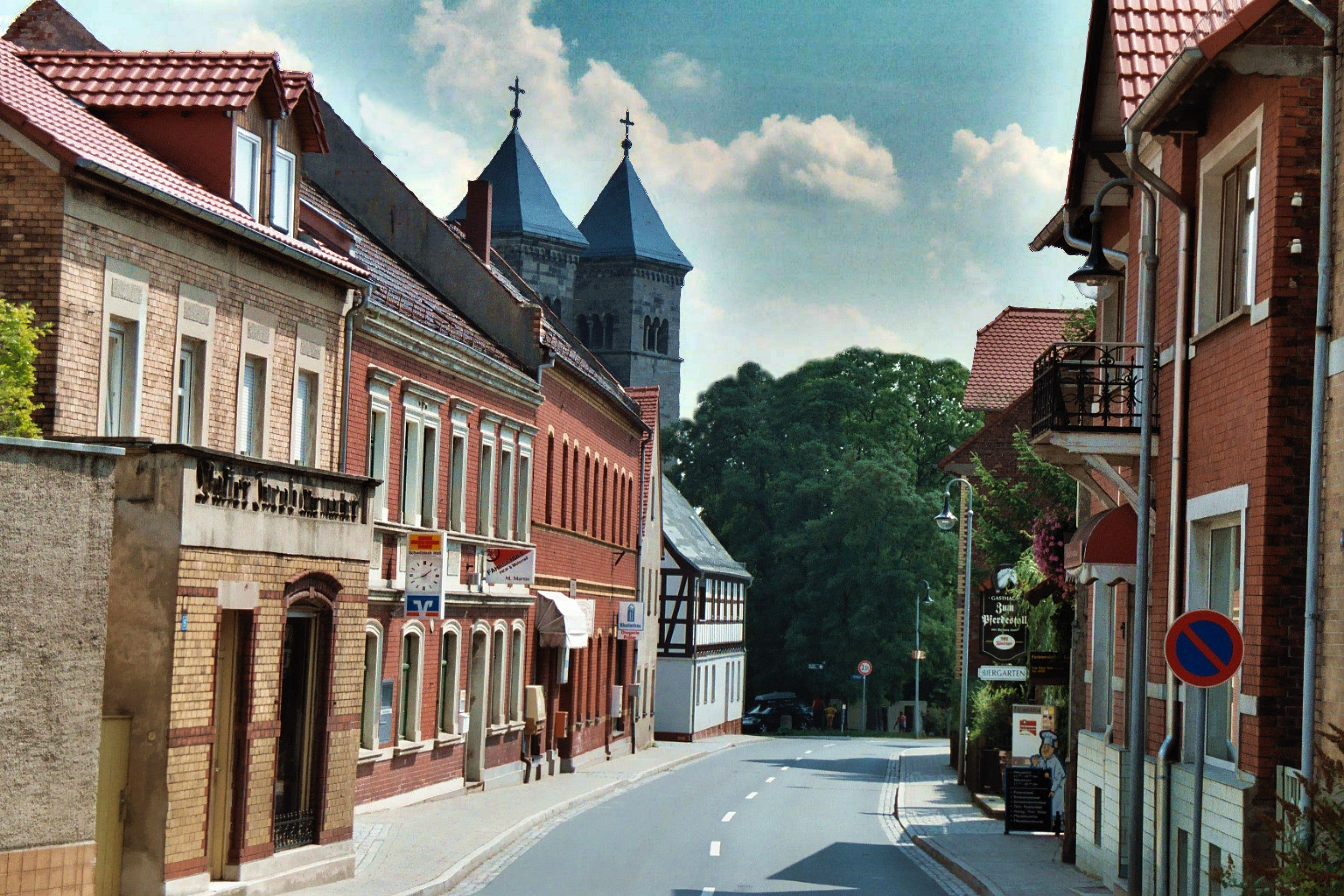 Bad Klosterlausnitz, the Geraer Straße